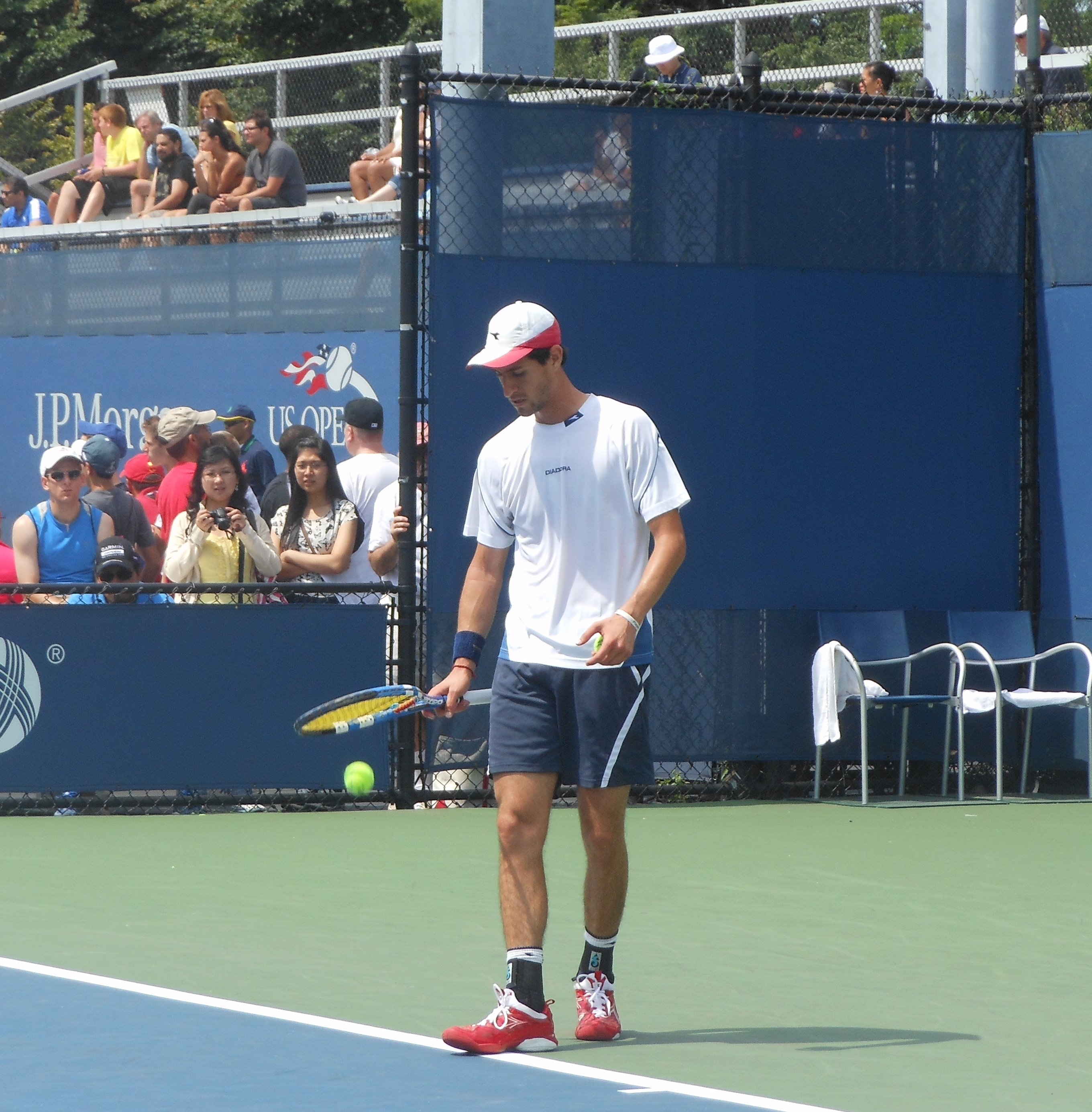 Amir Weintraub of Israel at the 2012 US Open